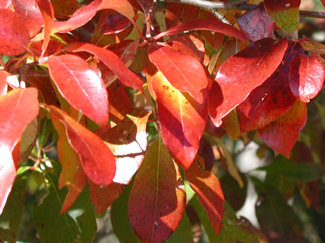 Closeup of wild Tupelo (Nyssa sylvatica) taken on Pilot Mtn, NC on 10-30-2008.